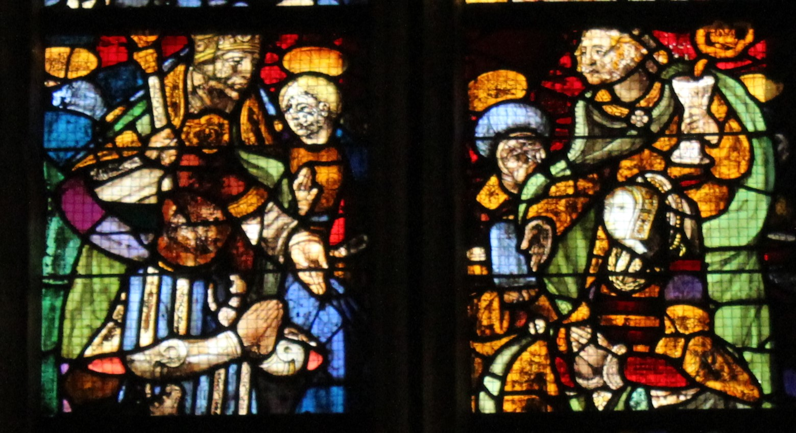 issu de la verrière du bras sud du Choeur de l'église Notre-Dame de Roscudon